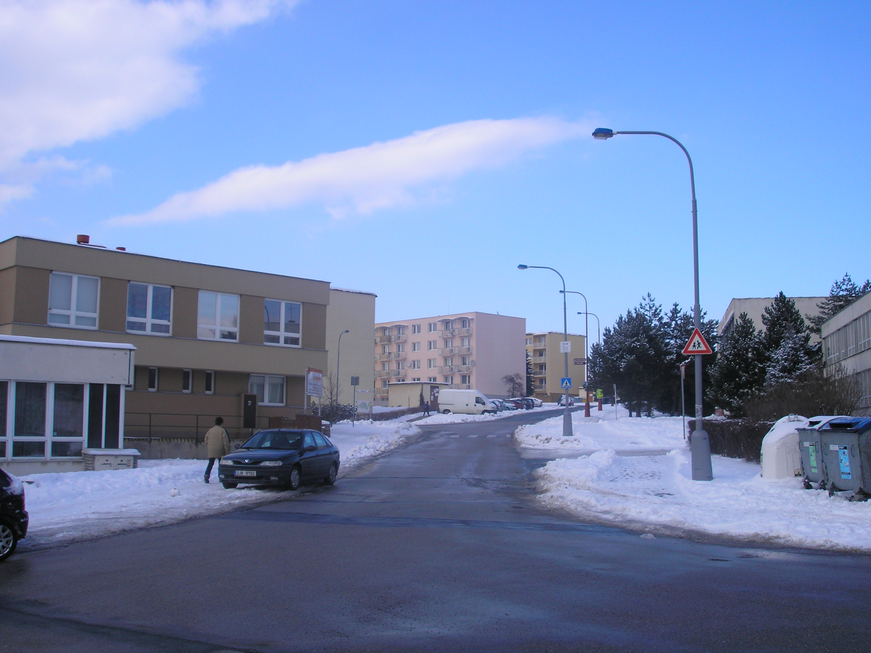 South wiev of Okužní street in Třebíč Borovina